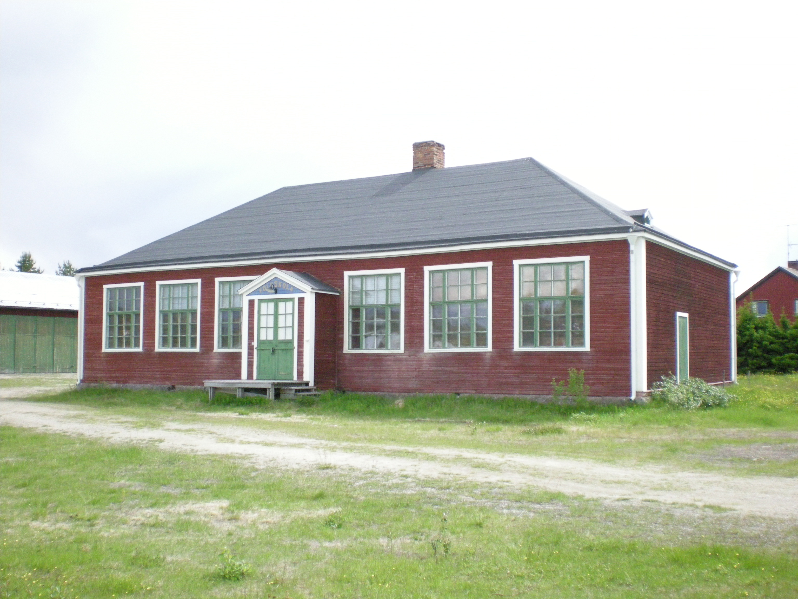 The old school in Åmsele, Sweden.